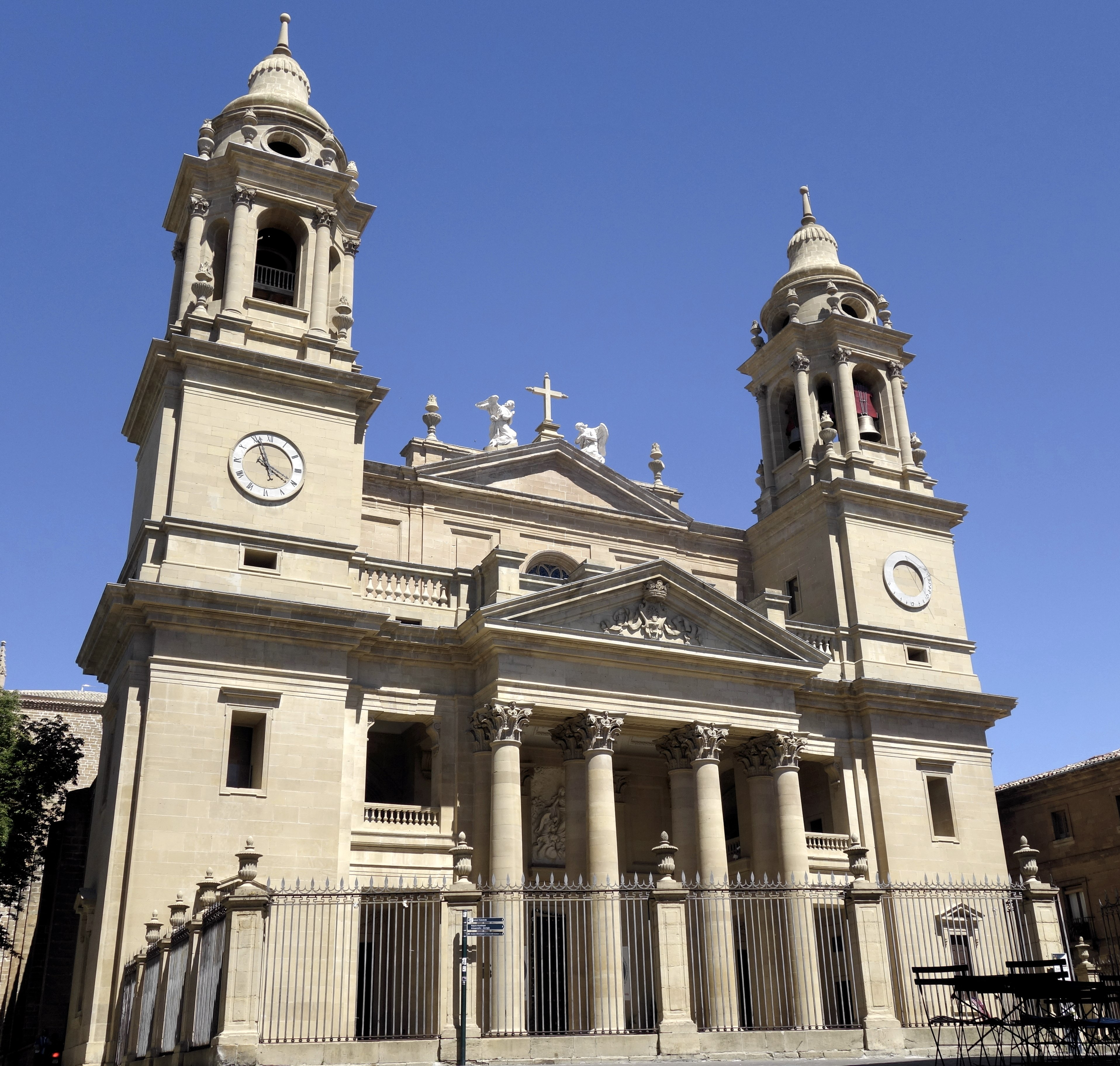 Pamplona cathedral main façade